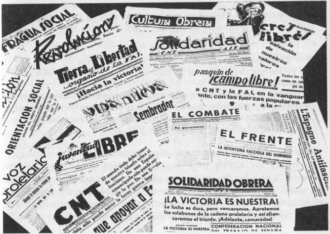 Sample of publications associated with the National Confederation of Labor (CNT Spain) and the Iberian Anarchist Federation (FAI) in the 1930s and 1940s.